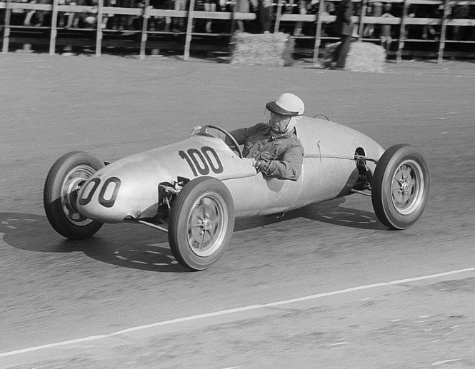 Theo Helfrich drives his MkVIII Cooper-Norton racing car at the 6th Leipziger Stadtparkrennen (1954-05-16). Cropped to centre subject and remove distracting whitespace. Original image description from the Deutsche FotothekAutomobilrennfahrer in seinem Wagen mit der Nummer 100 beim 6. Leipziger Stadtparkrennen Theo Helfrich drives his MkVIII Cooper-Norton racing car at the 6th Leipziger Stadtparkrennen (1954-05-16).